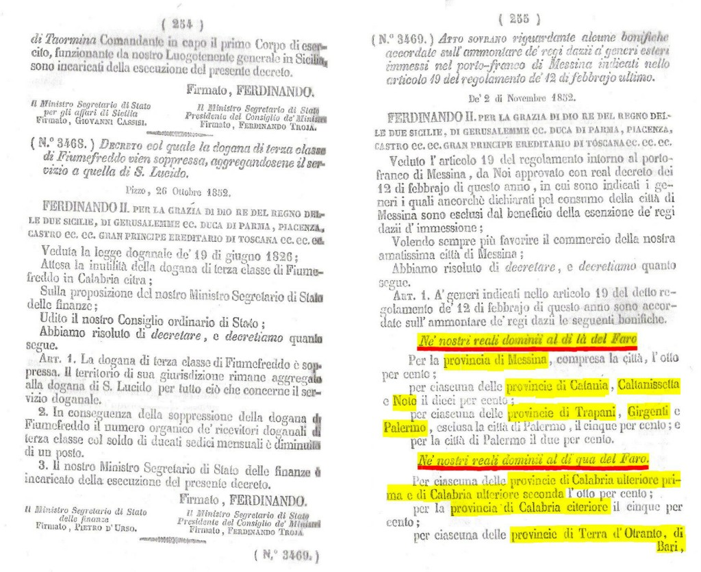 Laws and Decrees of the King of the two Sicilies of the year 1852 - II semester